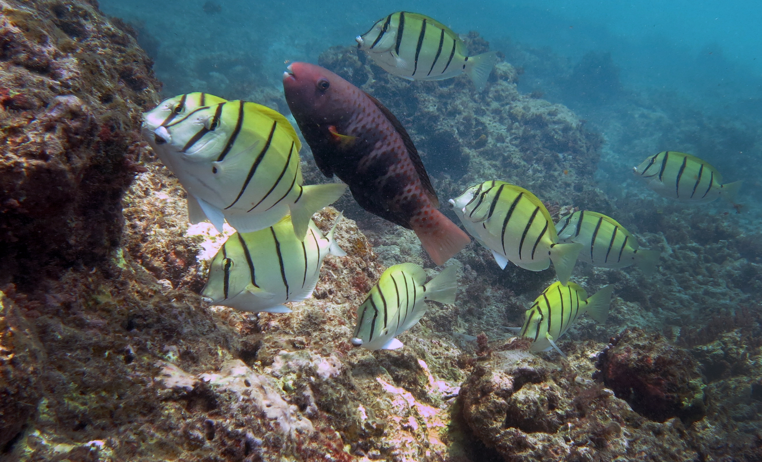 Convict surgeon_herbivore fish_Andaman